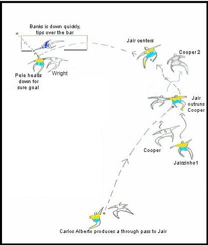 banks vs pele 1970 mexico- lateral and forward passes in attack